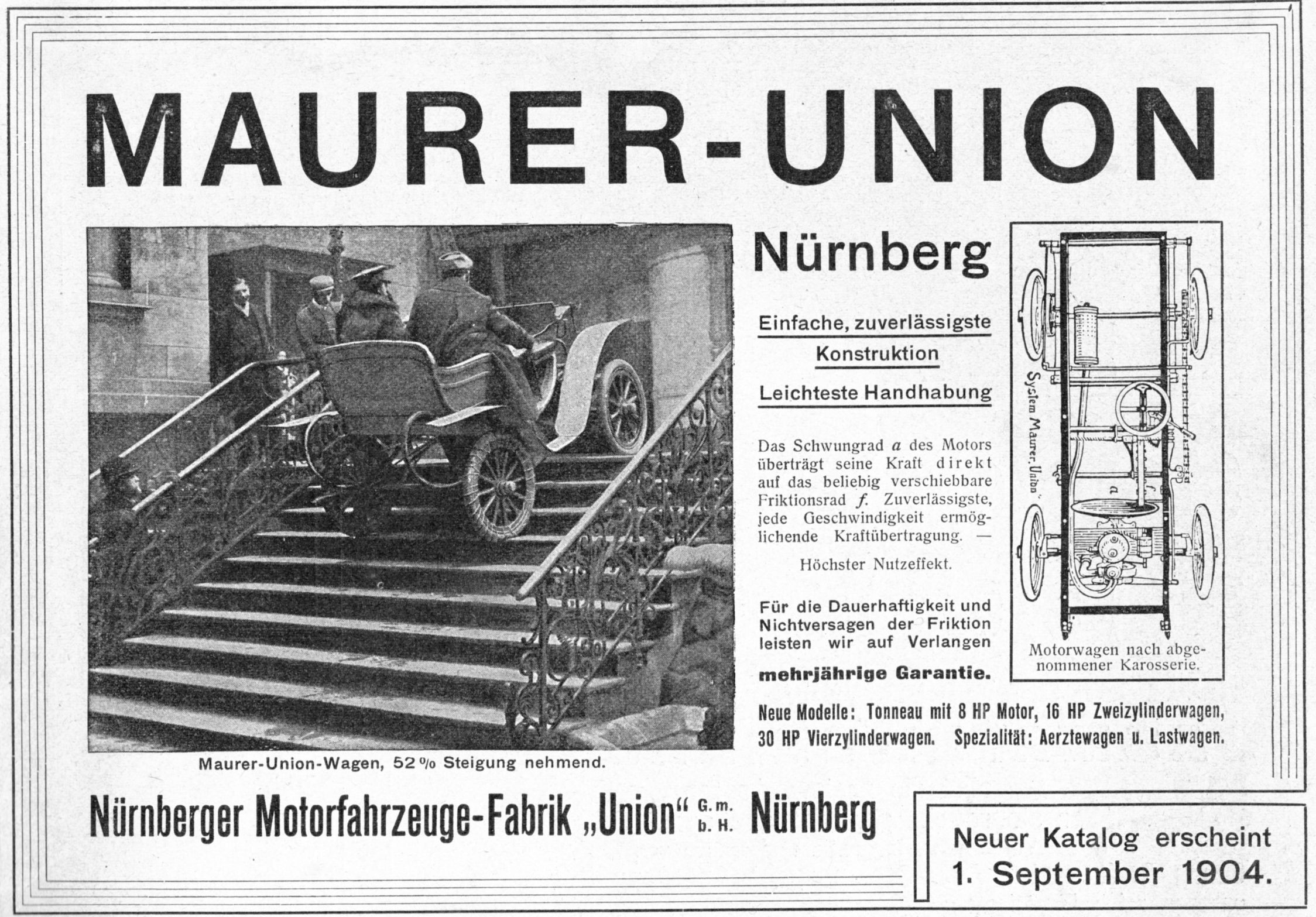 Advertisement Maurer-Union